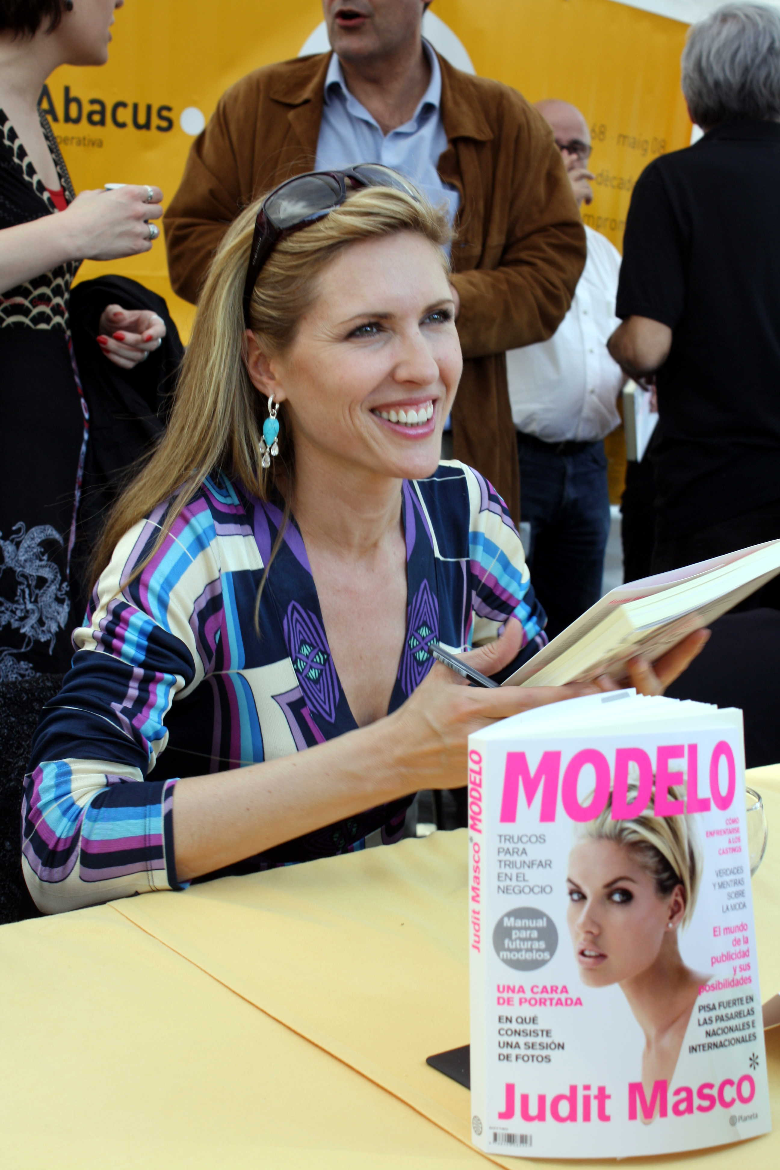 Judit Mascí signing books, during the Sant Jordi day, 23/4/2009